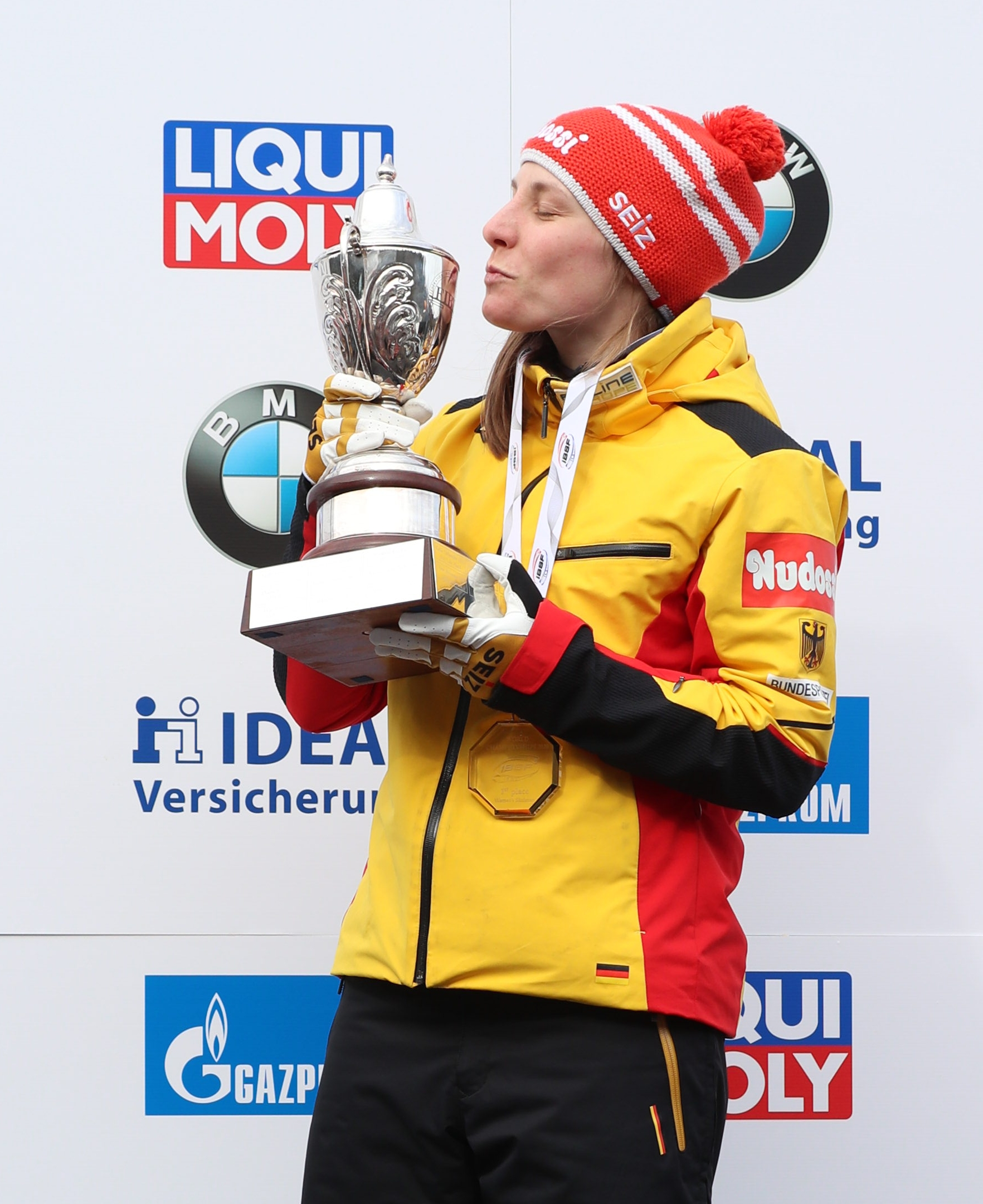 Medal Ceremony at the Women's Skeleton at the Bobsleigh and Skeleton World Championships 2020 in Altenberg